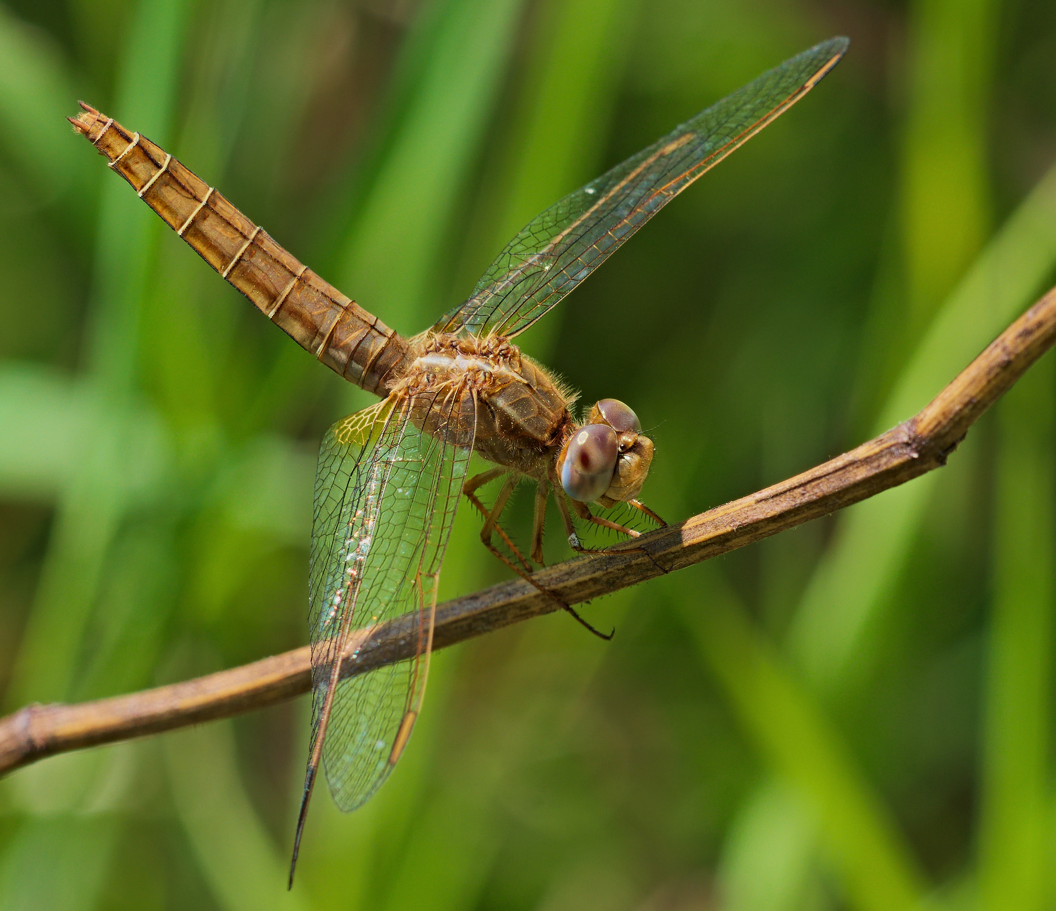 Scarlet dragonfly - Crocothemis erythraea, female. Taken in Viernheim, Hesse, Germany.